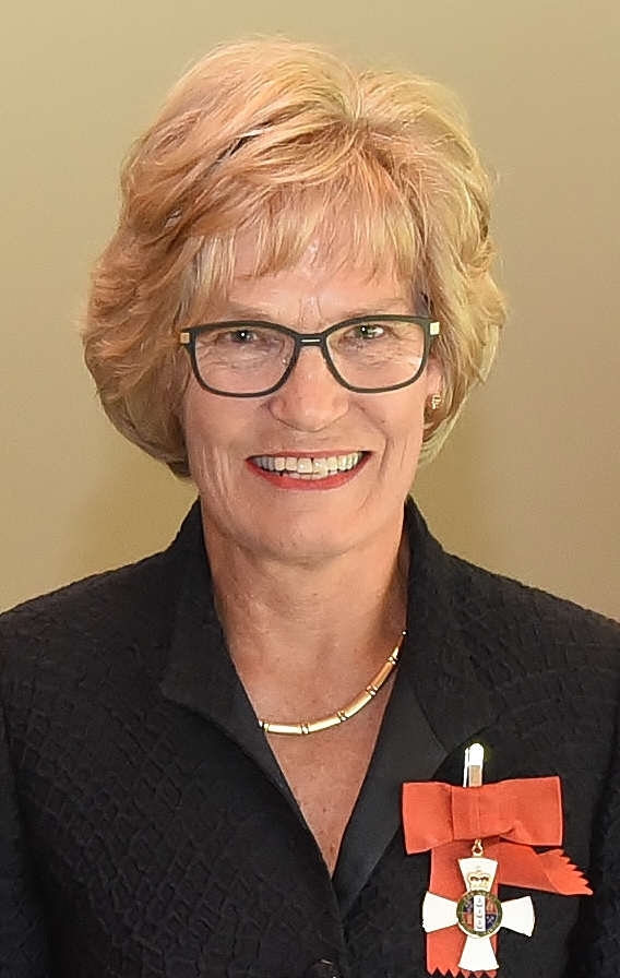 The Honourable Pamela Andrews, of Auckland, after her investiture as CNZM, for services to the judiciary, on 27 April 2016